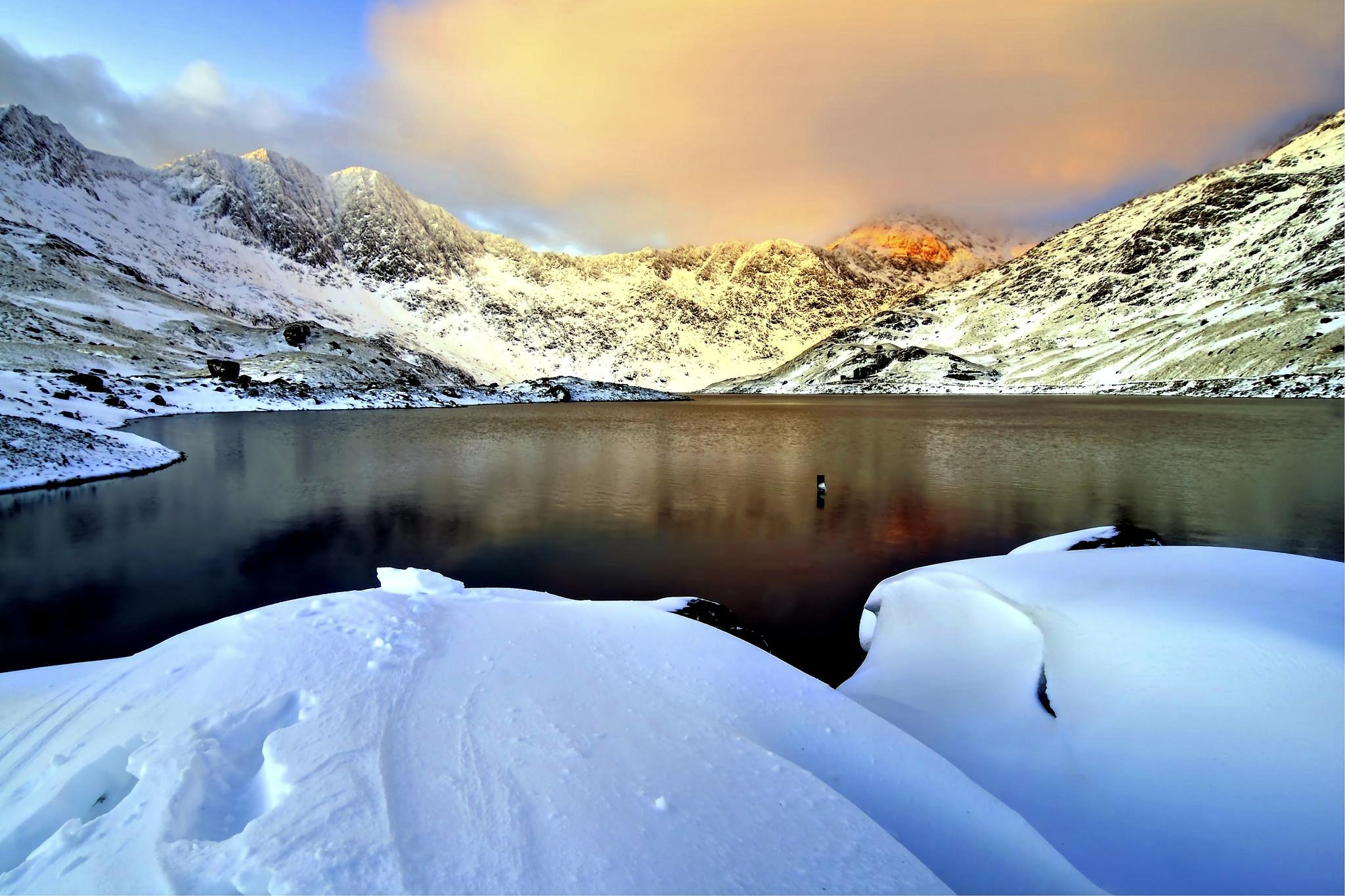 A brief glimpse of Snowdon through the snow clouds. I watched as the red stripe of the sunrise travelled down the mountain and across the lake.